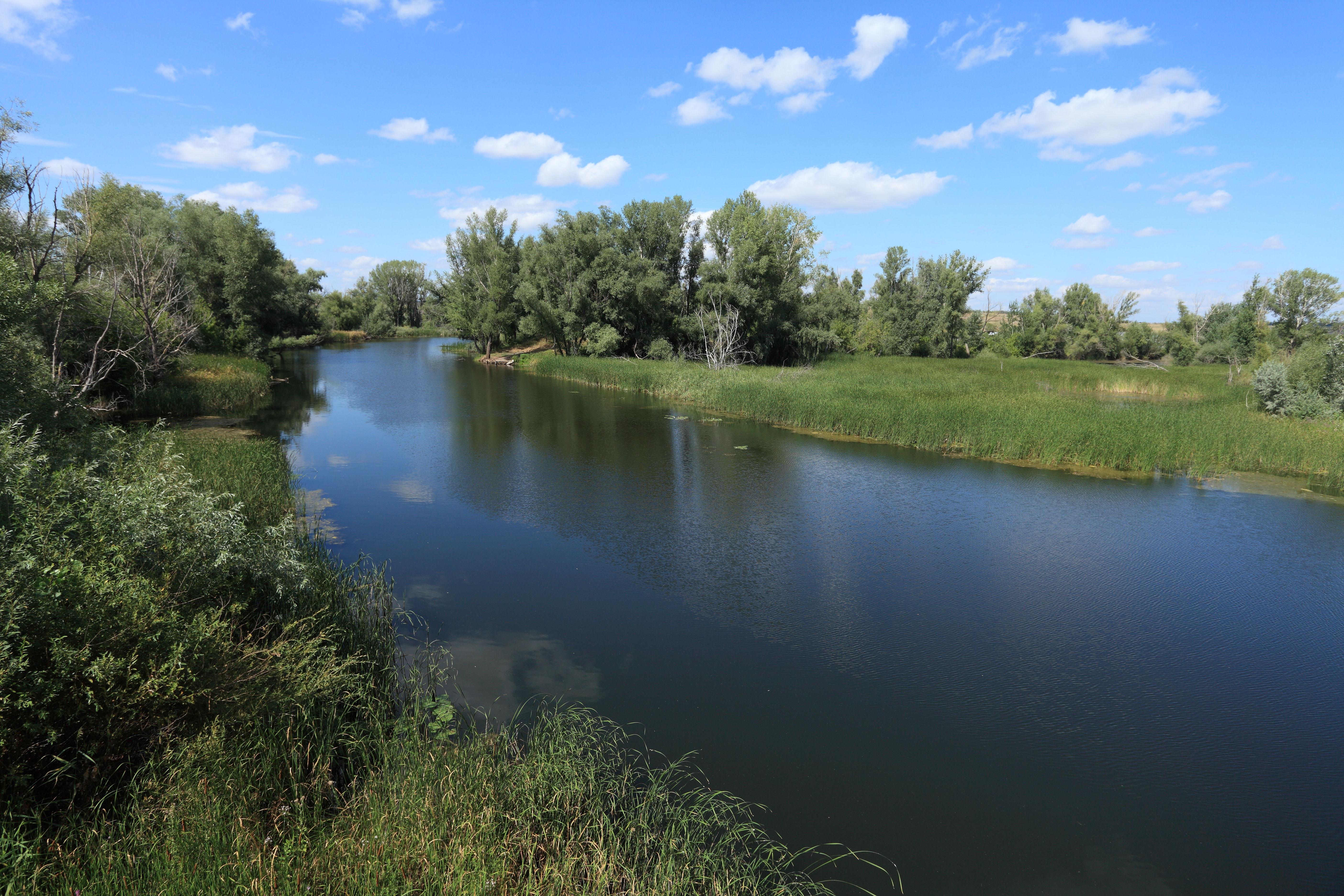 Kargalka River